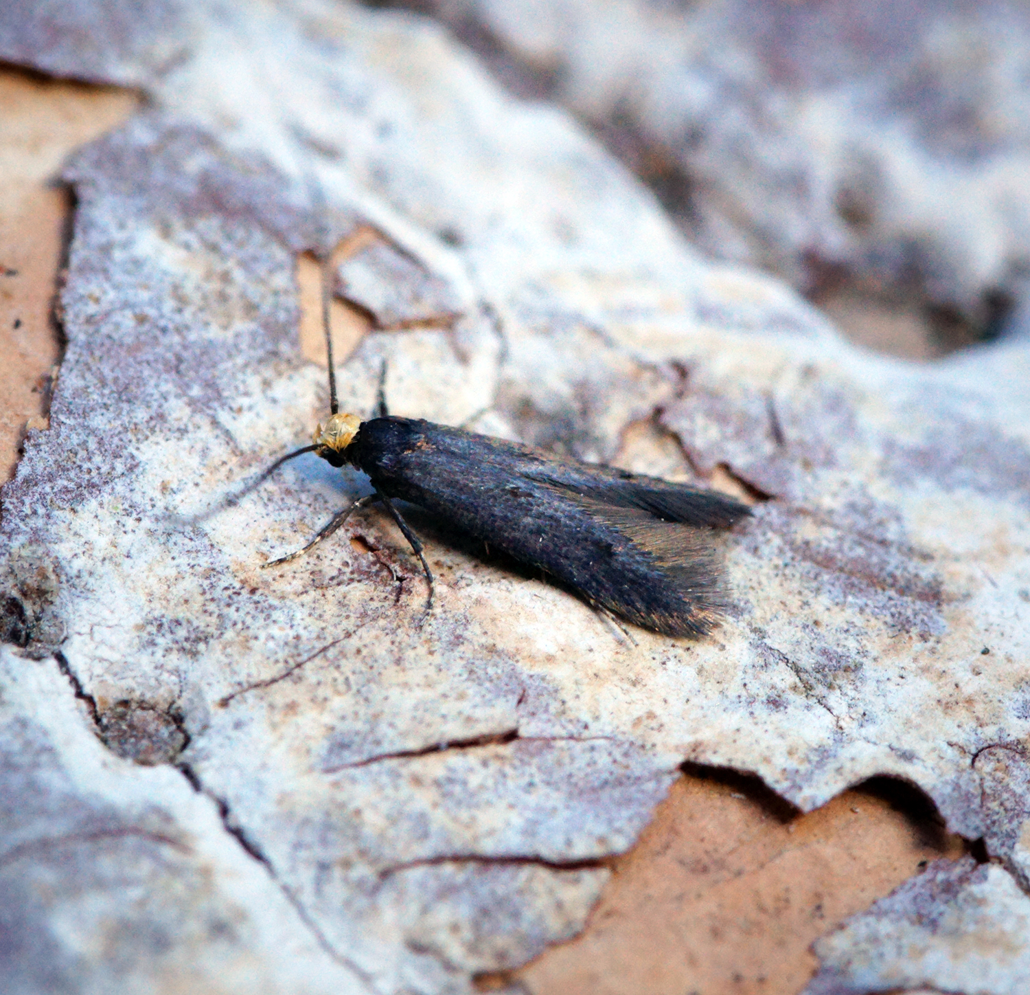 The rare Spuleria flavicaput Potted up from the minibus window on Friday (12/05/17) in a lay-by along the B1368 towards Barley, North Herts. A first for me in the tiny shape of Spuleria flavicaput at just about 8mm (What an odd almost incomprehensible name!). This tiny moth feeds from Hawthorn. Thanks to Gideon Knight for initial identification. Not a common moth in the County.